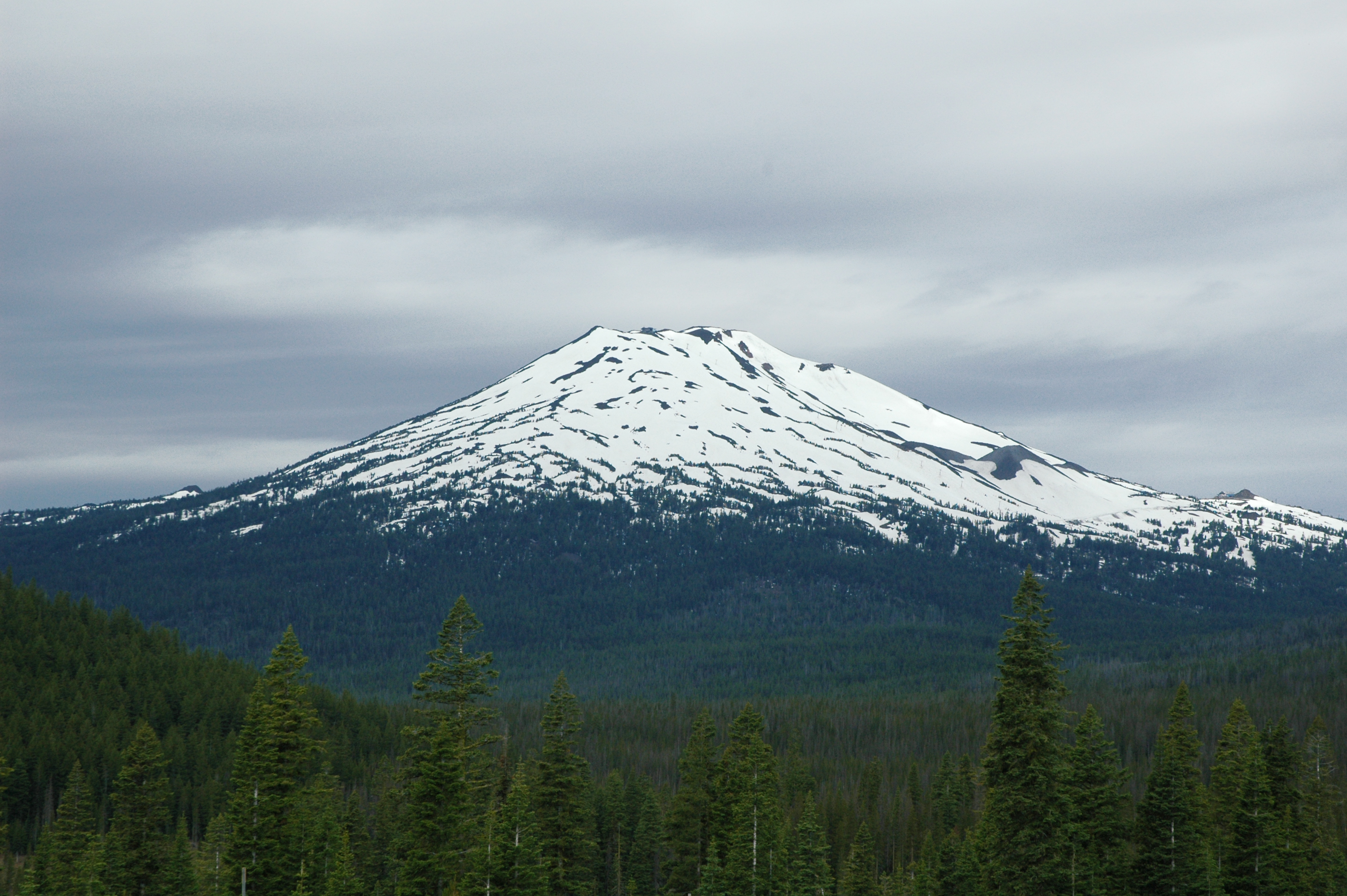 Closeup view of Mount Bachelor, Oregon, from the east, on the Cascade Lakes Scenic Byway.